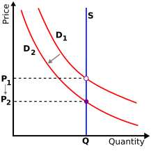 Illustrates a left-shift in demand while supply is vertical